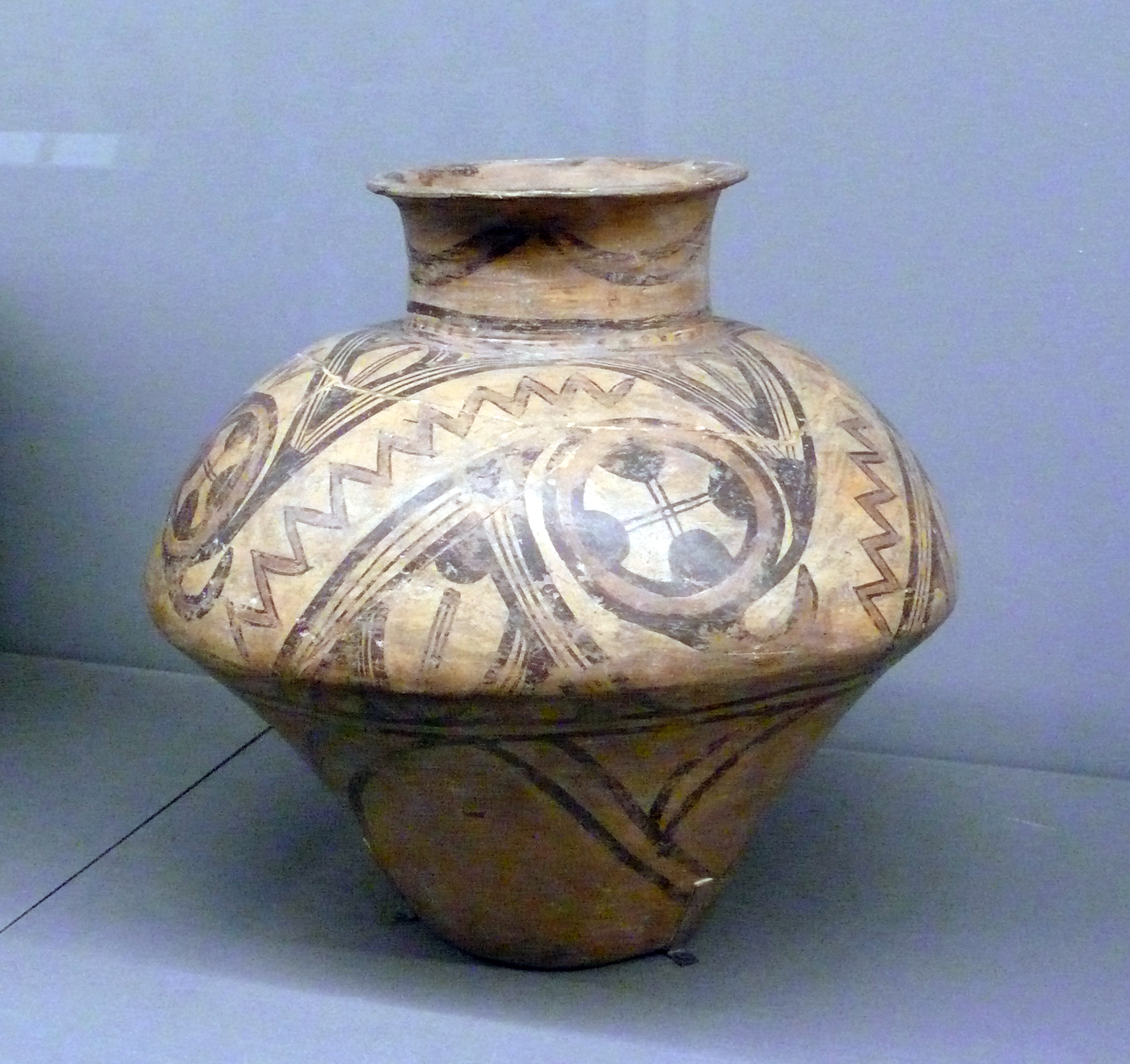 Vessel. Eneolithic, the Cucuteni Culture, 3800-3550 BCE. Found in Ukraine. Collected by the National Museum of Romanian History.